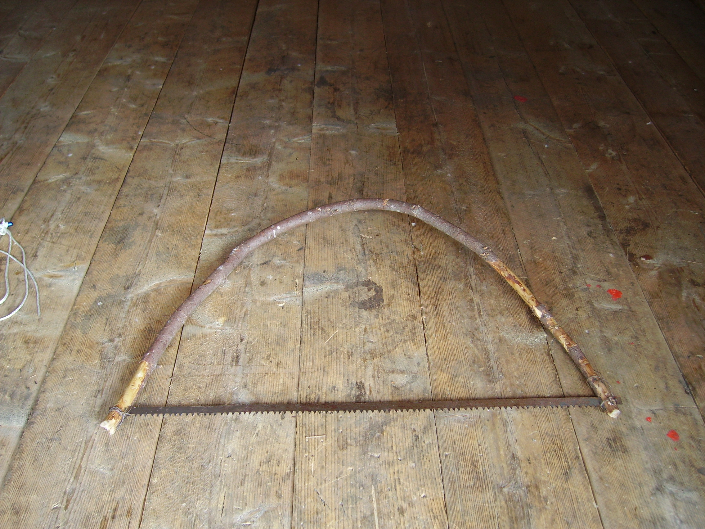 Hacksaw with wooden bow from Finland, probably assembled by scouts